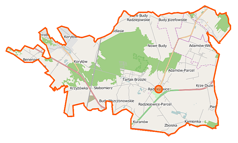 Map of Gmina Radziejowice, Poland This map of Radziejowice (gmina) was created from OpenStreetMap project data, collected by the community. This map may be incomplete, and may contain errors. Don't rely solely on it for navigation. Border coordinates52.057320.4026←↕→20.631651.9724